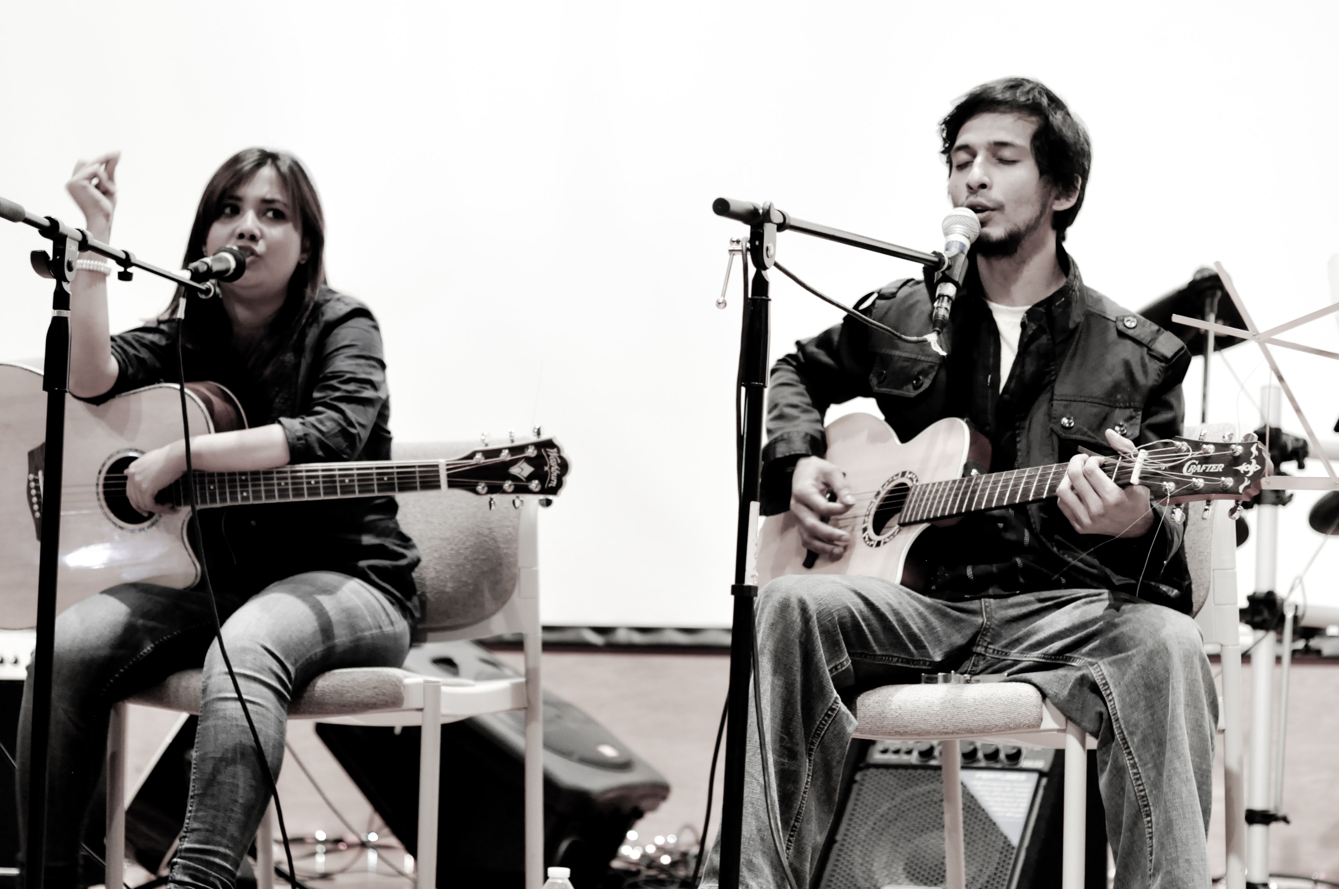 Arnab came to Dallas to perform in Bangladesh Night (organized by BSO) on Oct 19th,2012..As usual, the show was mind blowing